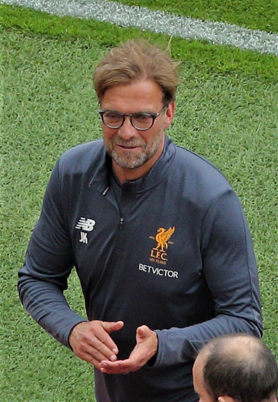 This is a cropped version of File:Jurgen Klopp leaves the pitch at full-time a happy man (34018926193).jpg